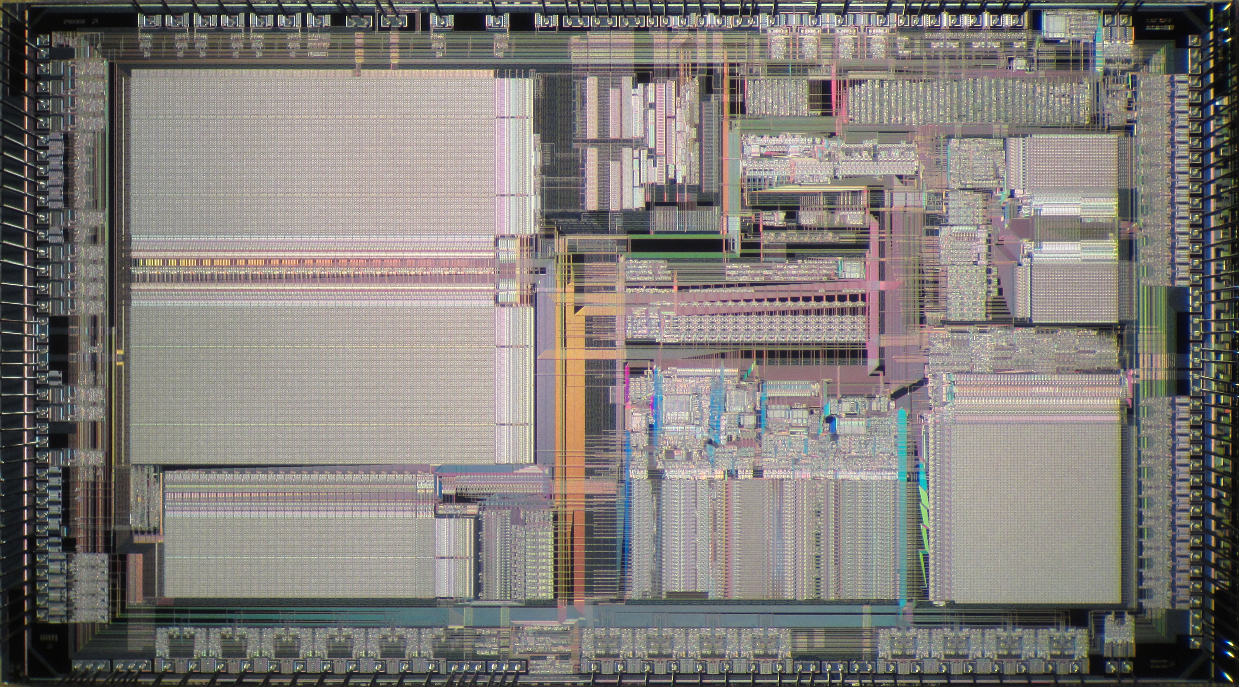 Die shot of AMD Am29030-25GC microprocessor.